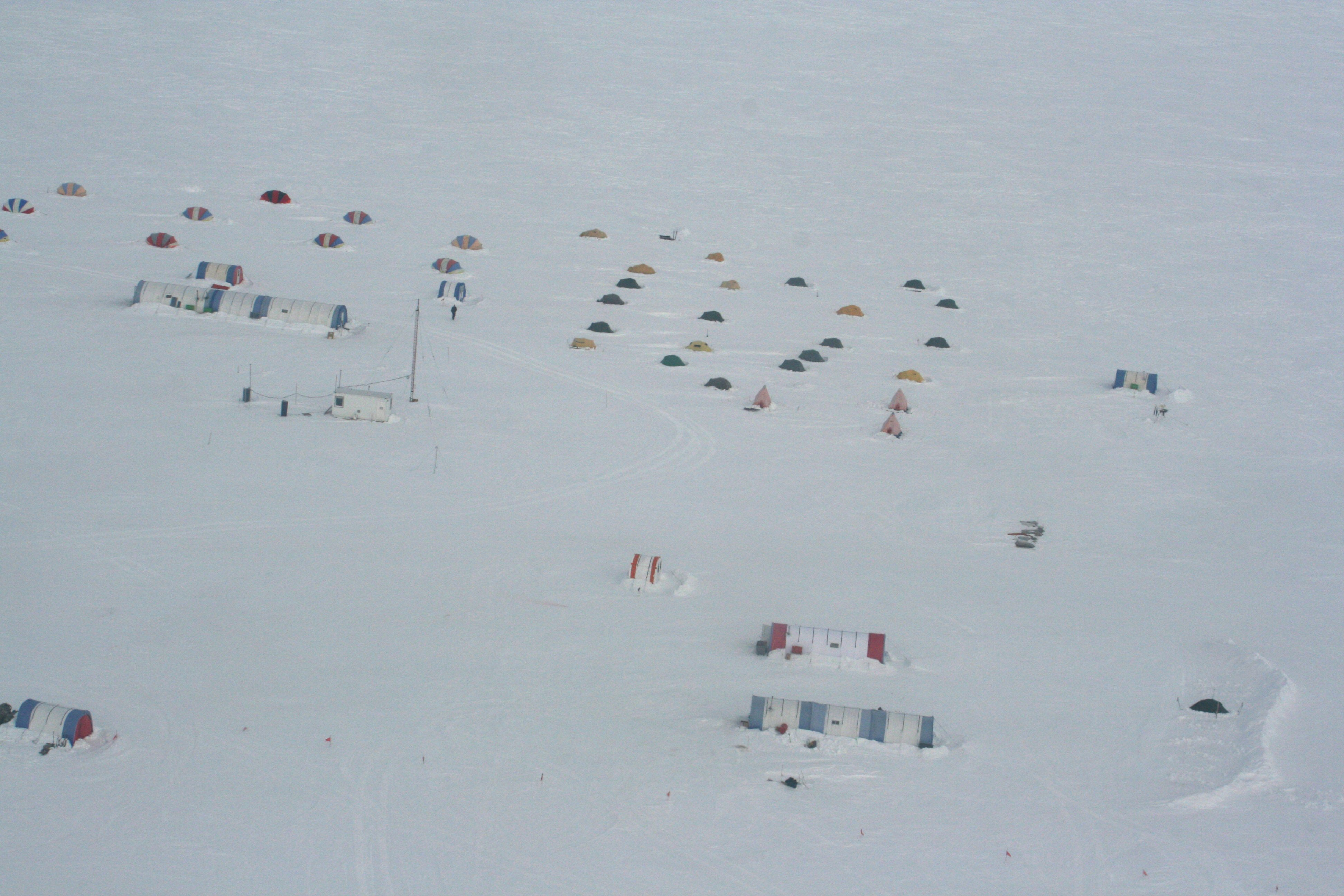 Aerial view of Patriot Hills base camp tents. Taken by Richard Laronde on 1/11/2007.